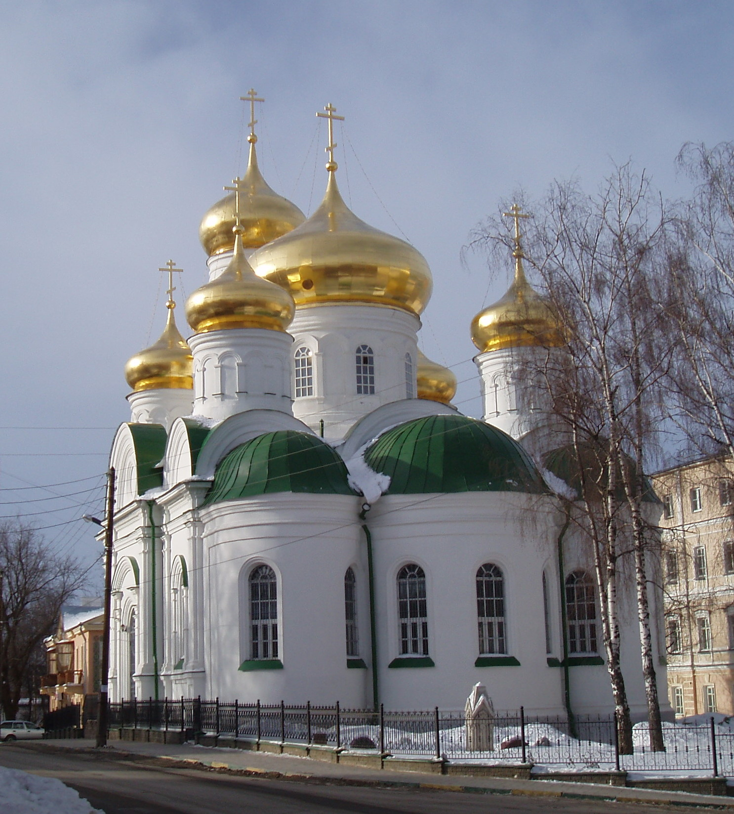 Saint Sergius of Radonezh Church in Nizhny Novgorod, Russia